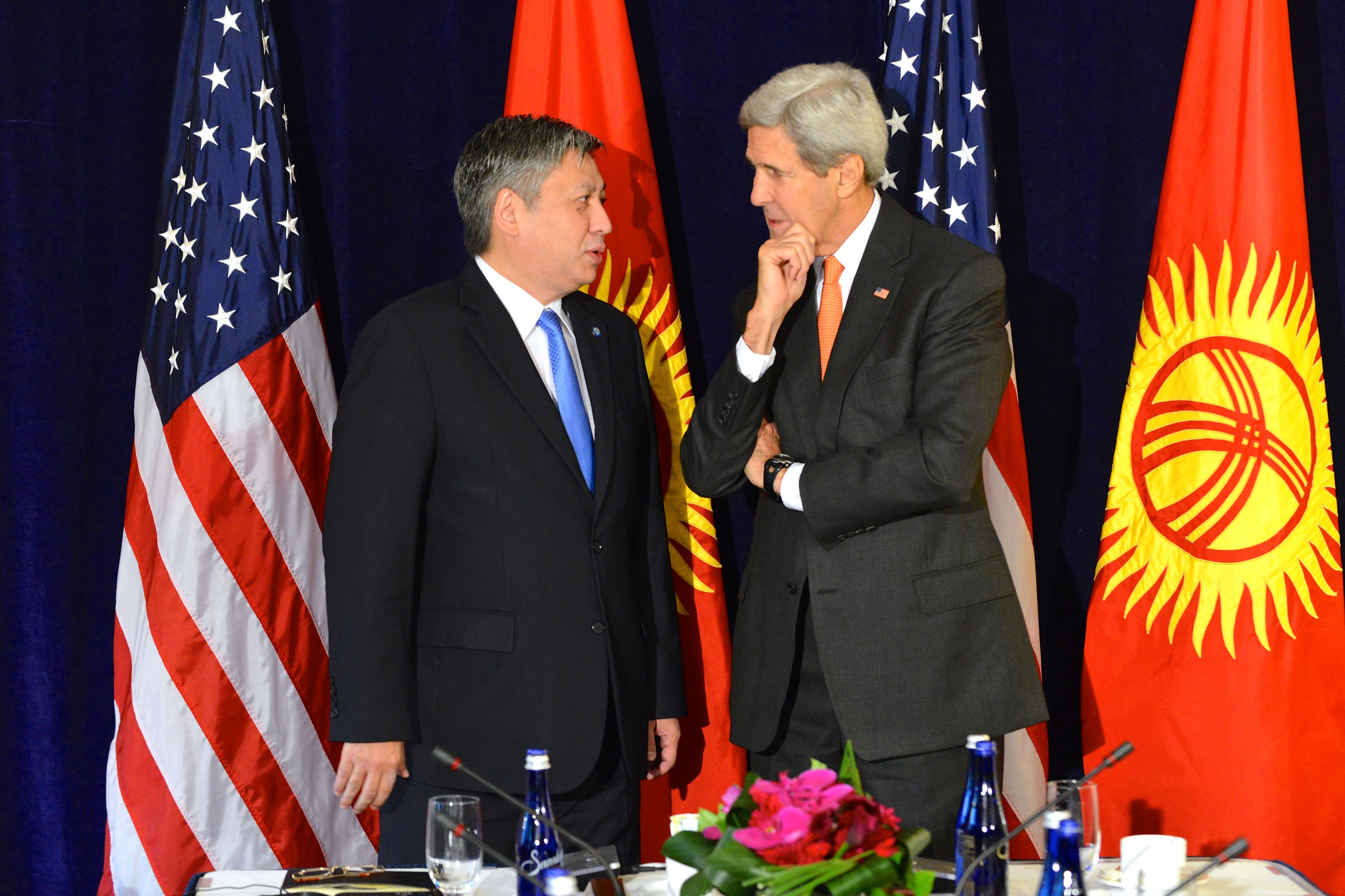 U.S. Secretary of State John Kerry chats with Kyrgyz Foreign Minister Erlan Abdyldaev before their bilateral meeting on the sidelines of the 70th Regular Session of the UN General Assembly in New York, New York, on October 2, 2015. [State Department photo/ Public Domain]